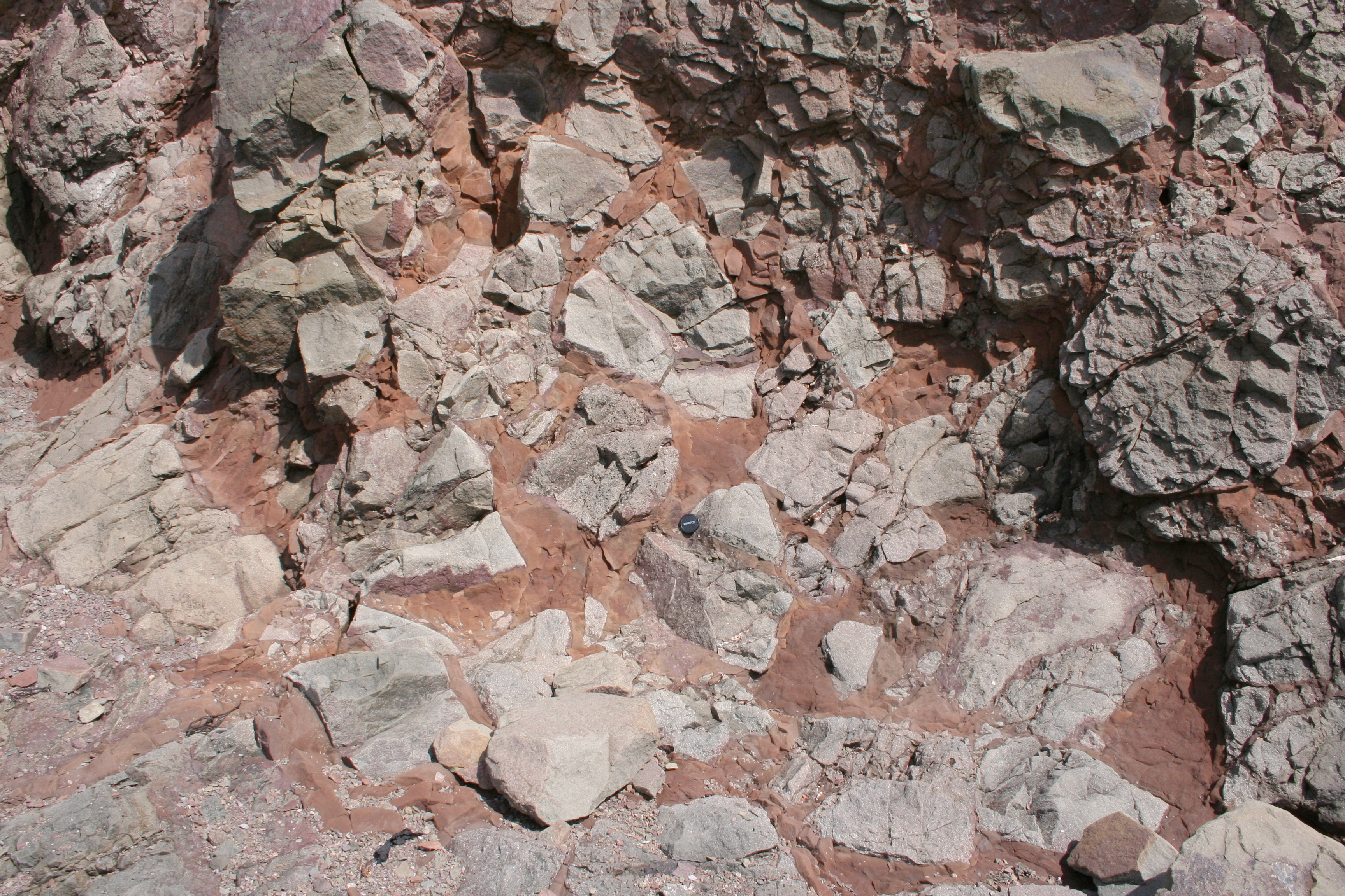 Breccia in the McCoy Brook Formation (Lower Jurassic), Wasson's Bluff, Nova Scotia. Clasts are derived from the North Mountain Basalt. Coordinates are approximate.